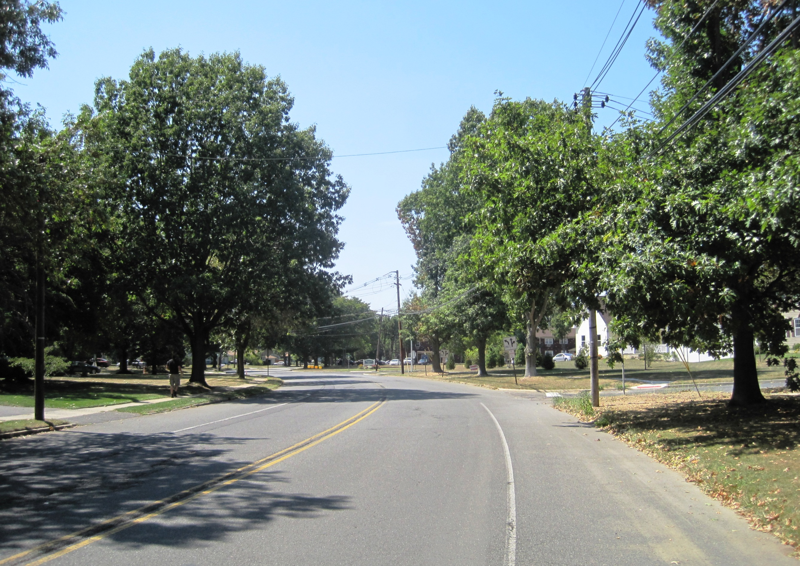 Photo of Hickory Corner, New Jersey, an unincorporated community within East Windsor Township. Photo taken on Dutch Neck Road westbound at Scott Road.